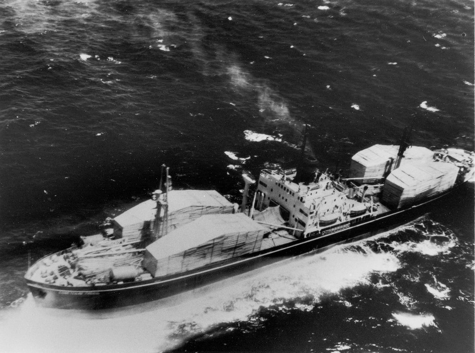 Photograph of crates holding Komar guided-missile patrol boats on their way to Cuba, September 1962..